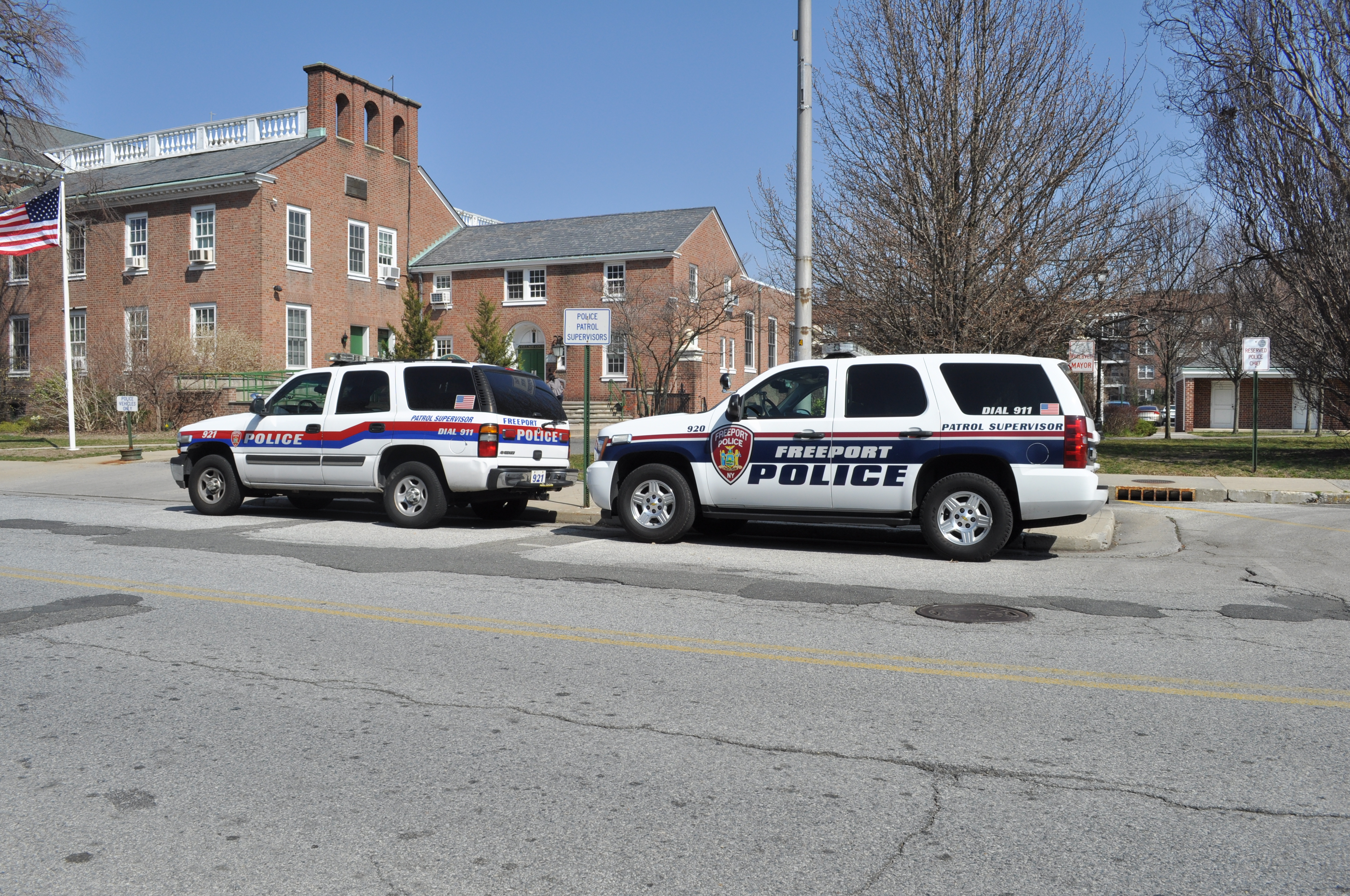 Police cars by Municipal Building, Freeport, Long Island, New York.